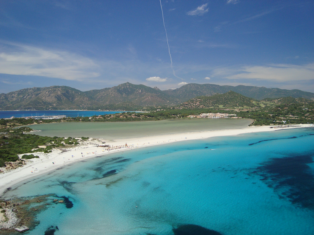 Villasimius , Sardinia-Italy